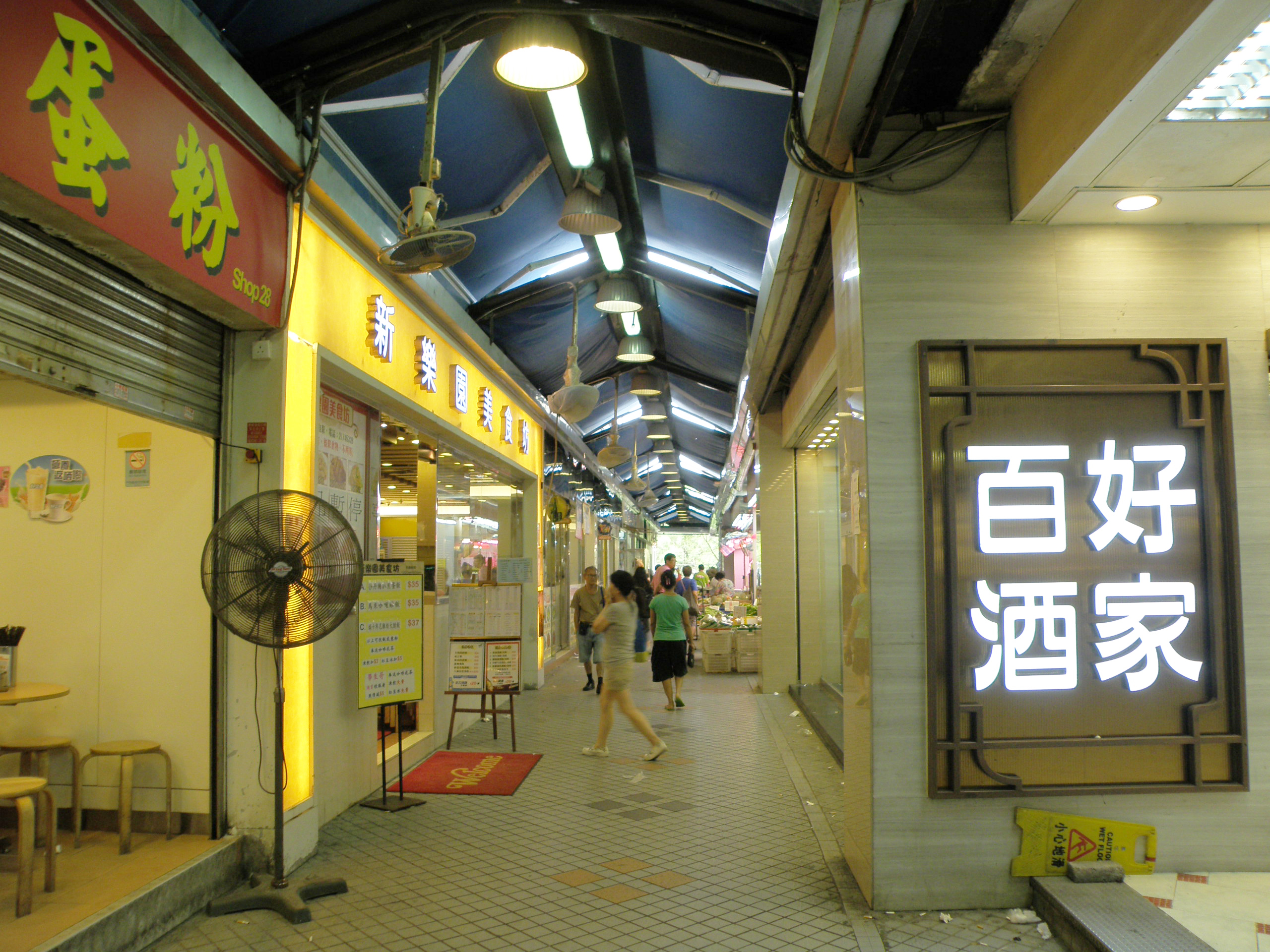 Kai Tin Tower in Lam Tin, Hong Kong.